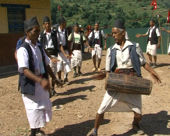 Nepali dance